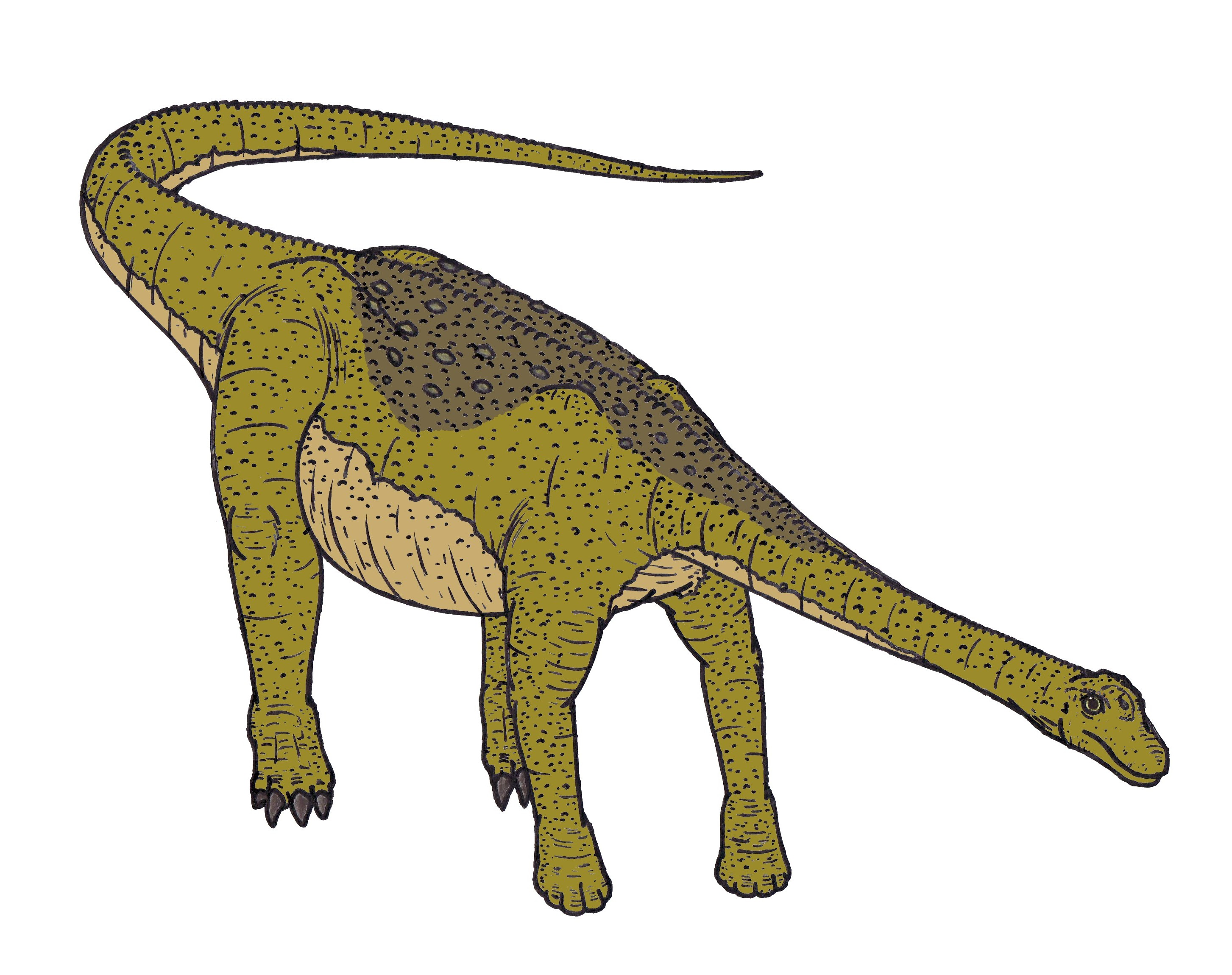 Nemegtosaurus was a planteating dinosaur. It was a late cretaceous sauropod from Mongolia. It may was about 12 ( 40 feet ), and could have been armored on the back for protection from Tarbosaurus.